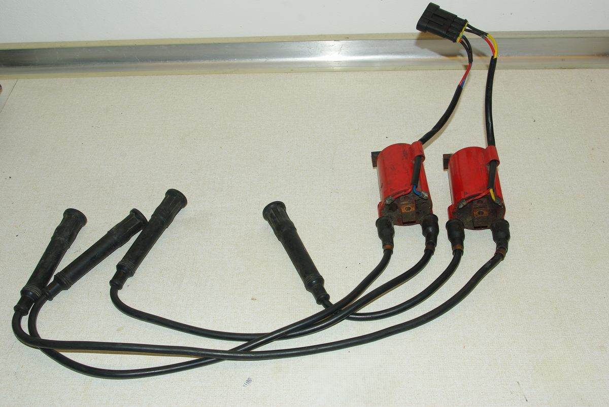 Ford Escort RS1600i ignition barrels with HT leads